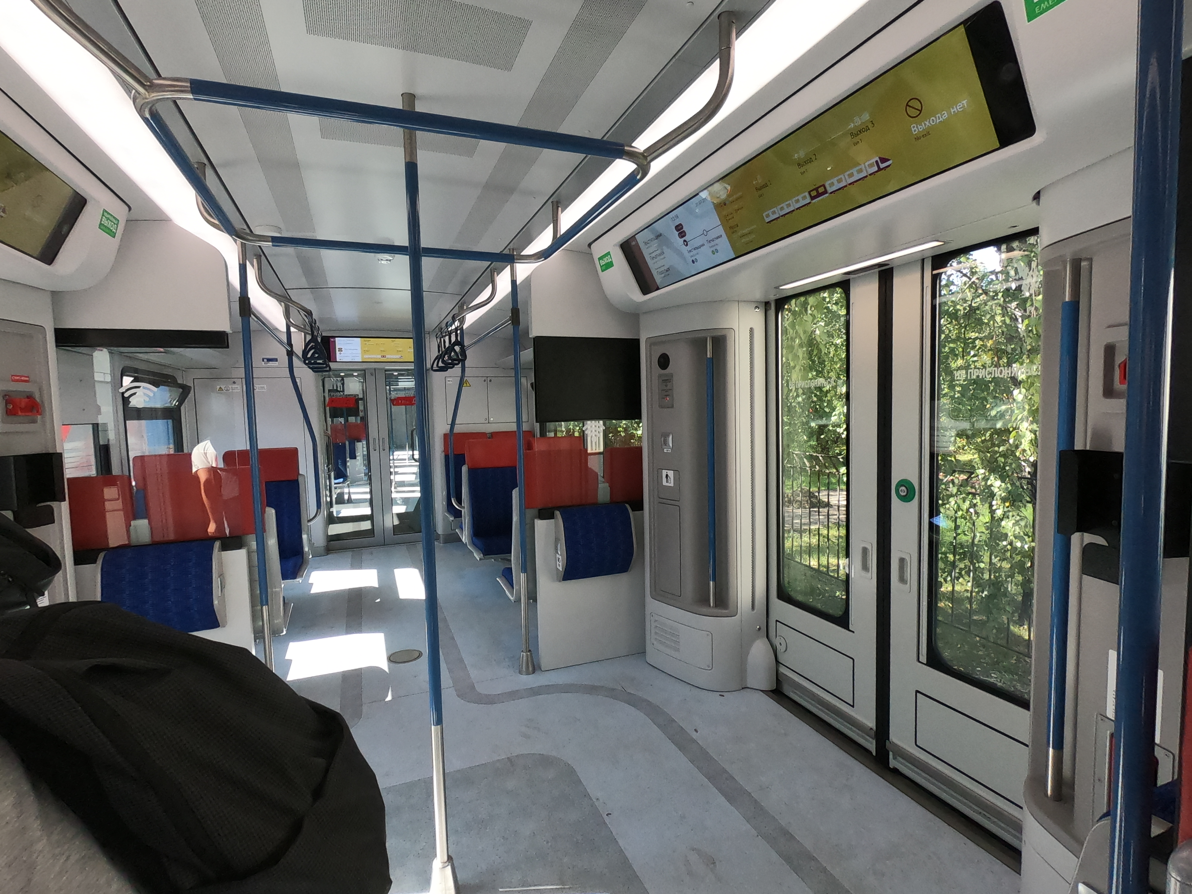 VNIIZT